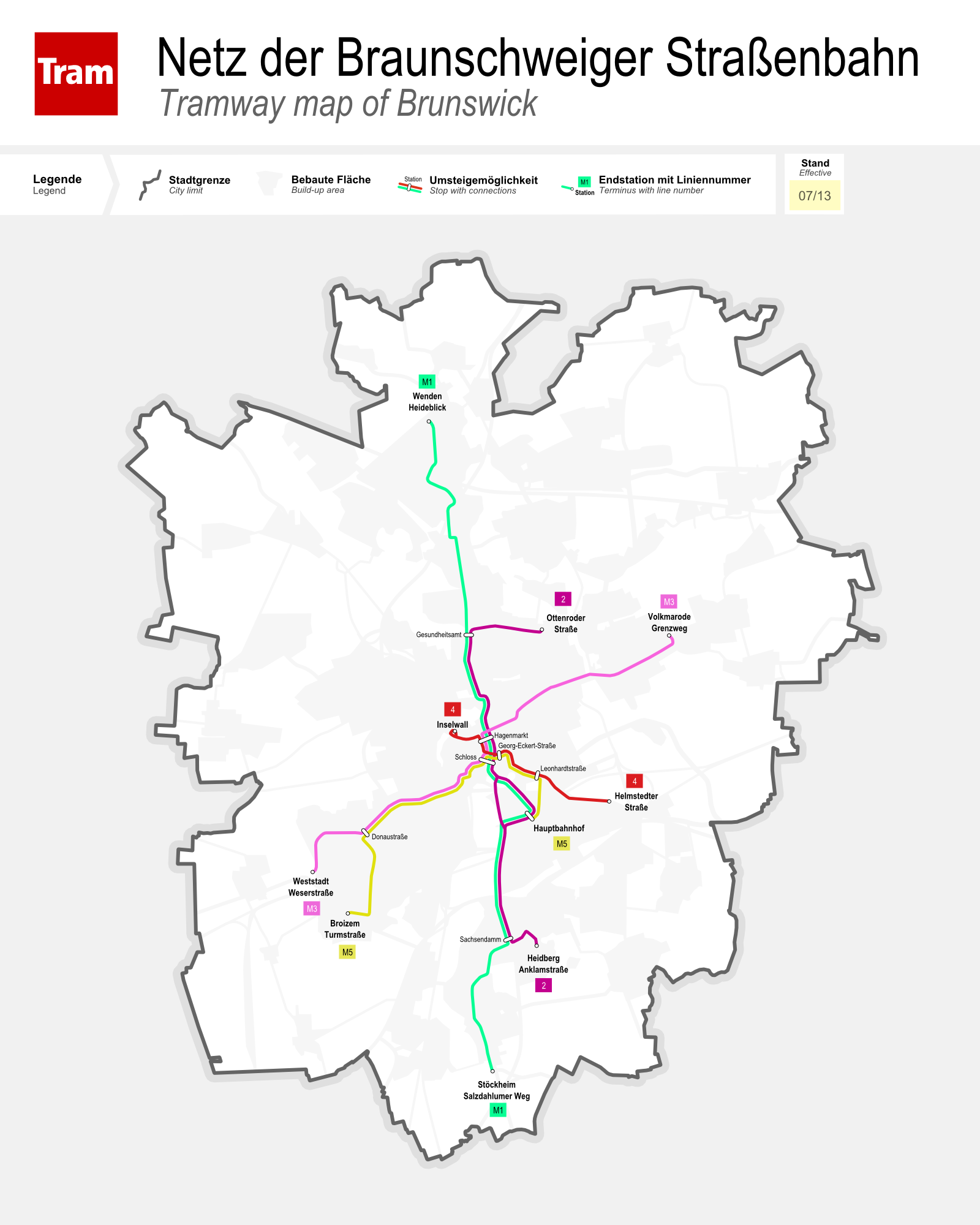 Tramway map of Brunswick